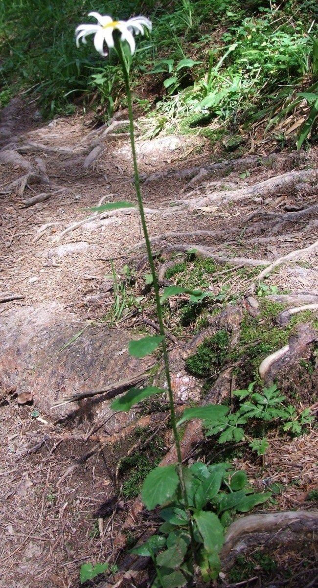 Lecanthemum rotundifolium (Willd.) DC. (nomenclature reference: Prodr. 6: 46. 1838). Homotypic synonyms: Chrysanthemum rotundifolium Willd., Leucanthemum waldsteinii (Sch. Bip.) Pouzar, Tanacetum rotundifolium (Willd.) Simonk. [non DC. 1838], Tanacetum waldsteinii Sch. Bip., nom. nov.